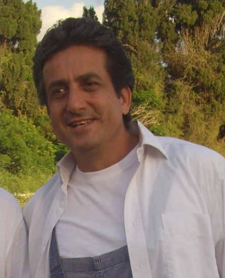 Israeli actor Menashe Noy.